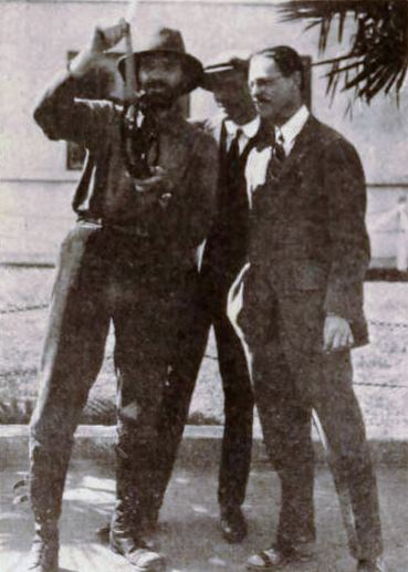 Director B. Reeves Eason showing screenwriters Lucien Hubbard and Douglas Z. Doty film from the American western Two Kinds of Love (1920), on page 42 of the January 1, 1921 Exhibitors Herald.